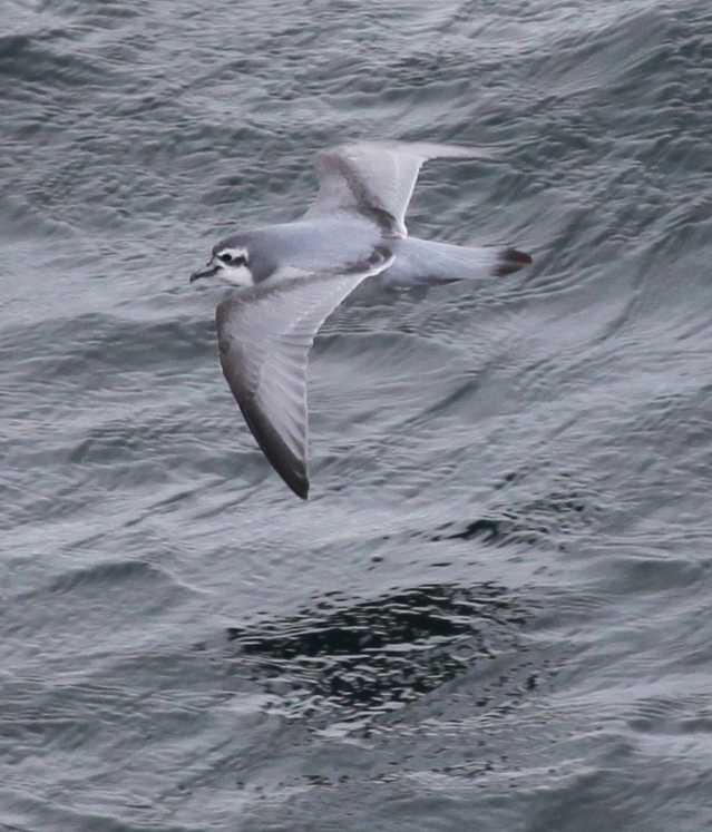 I had a tough time getting a good photo of this speedy little bird, but I managed to snap a couple shots at sea between Tierra del Fuego and the Falkland Islands.